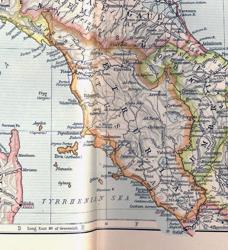 Map of Etruria during the Roman period.